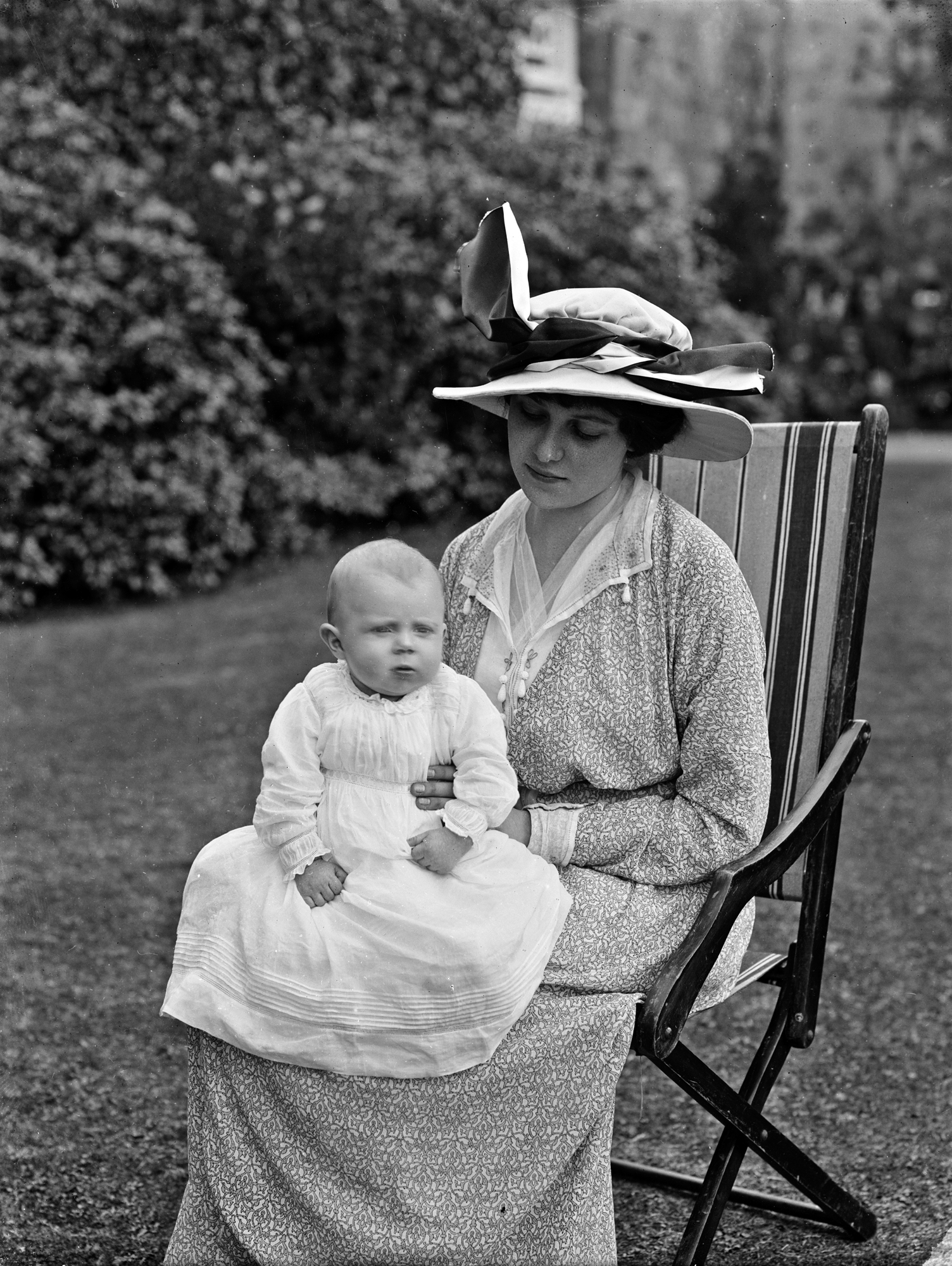 Everybody loves a baby and this wee one is a bouncer if ever there was one! A photo for many with a hat for our friend in Quebec, a baby for those who love children and a title for those who love to research "the peerage" and their connections! On the latter, our intrepid Flickroonies did not disappoint. And not only were we reminded of the images in the collection of the his aunts, uncles, and grandparents (see comments), we have confirmation that the baby pictured is (or would be) the politician and diplomat Frederick Edward Neuflize "Eric" Ponsonby, 10th Earl of Bessborough DL (1913–1993). It is suggested that he is pictured here (in his first year) with his mother Roberte, Countess of Bessborough , Viscountess Duncannon (1892–1979). Photographer: A. H. Poole Collection: Poole Photographic Studio, Waterford Date: ca. 2 September 1913 NLI Ref: POOLEWP 2486 You can also view this image, and many thousands of others, on the NLI’s catalogue at